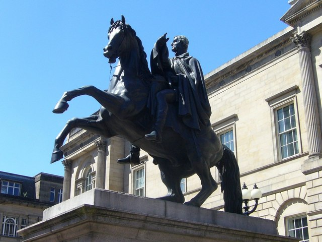 Duke of Wellington statue, Register House "There were present at the unveiling [in 1852] a vast number of pensioners drawn up in the street, many minus legs and arms, while a crowd of retired officers, all wearing the newly-given war medal, occupied the steps of Register House and were cheered by their old comrades to the echo. Many met on that day who had not seen each other since the peace that followed Waterloo." -- James Grant, Old and New Edinburgh, 1880. Edinburgh schoolboy joke: Pupil 1: "I see he's on his high horse again..." Pupil 2: "Who? Pupil 1: "The Duke of Wellington!"